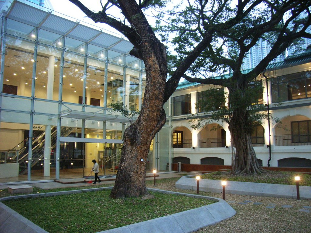 香港文物探知館 (Hong Kong Heritage Discovery Centre)在zh:九龍公園內. Photo by TonySKTO